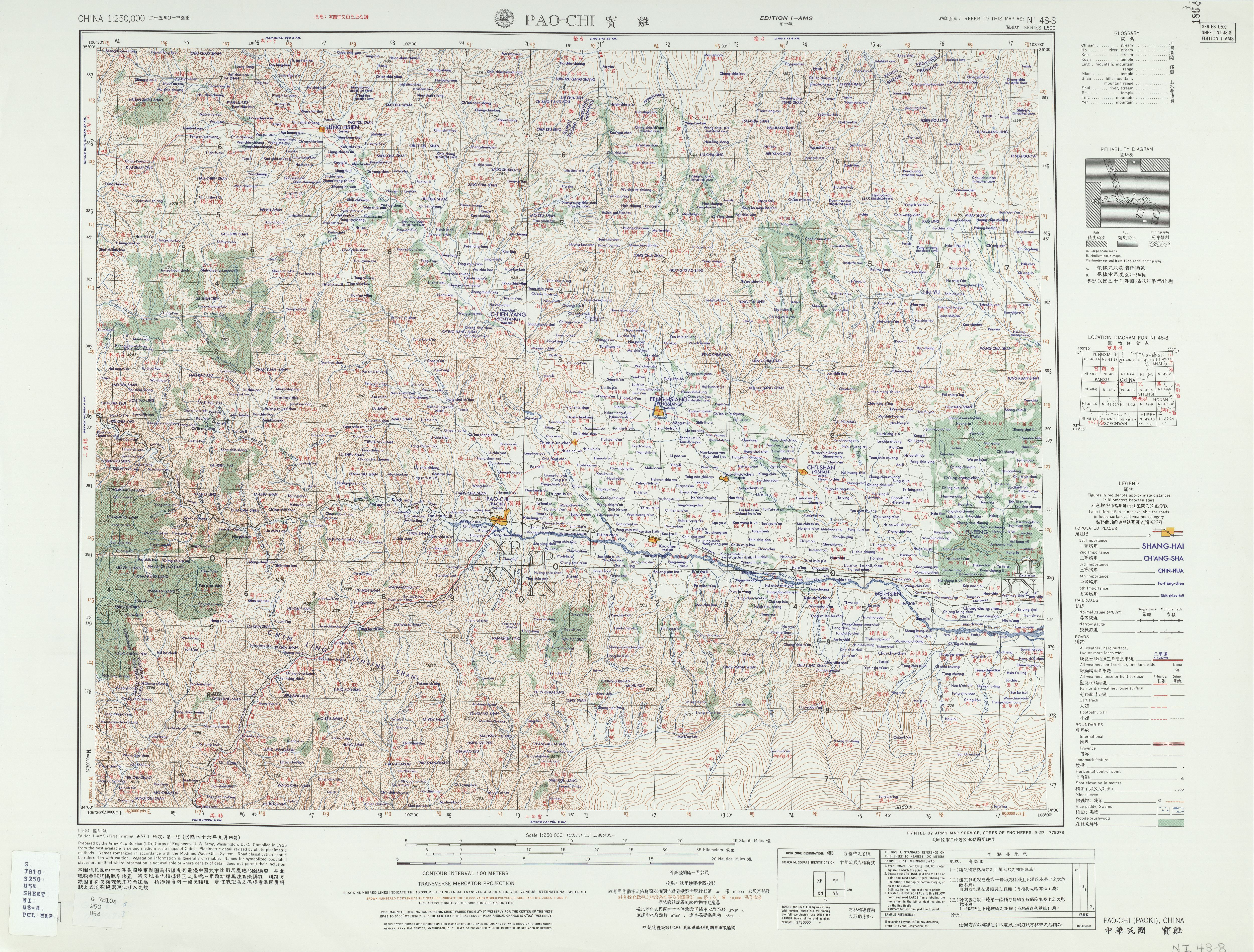 China AMS Topographic Maps